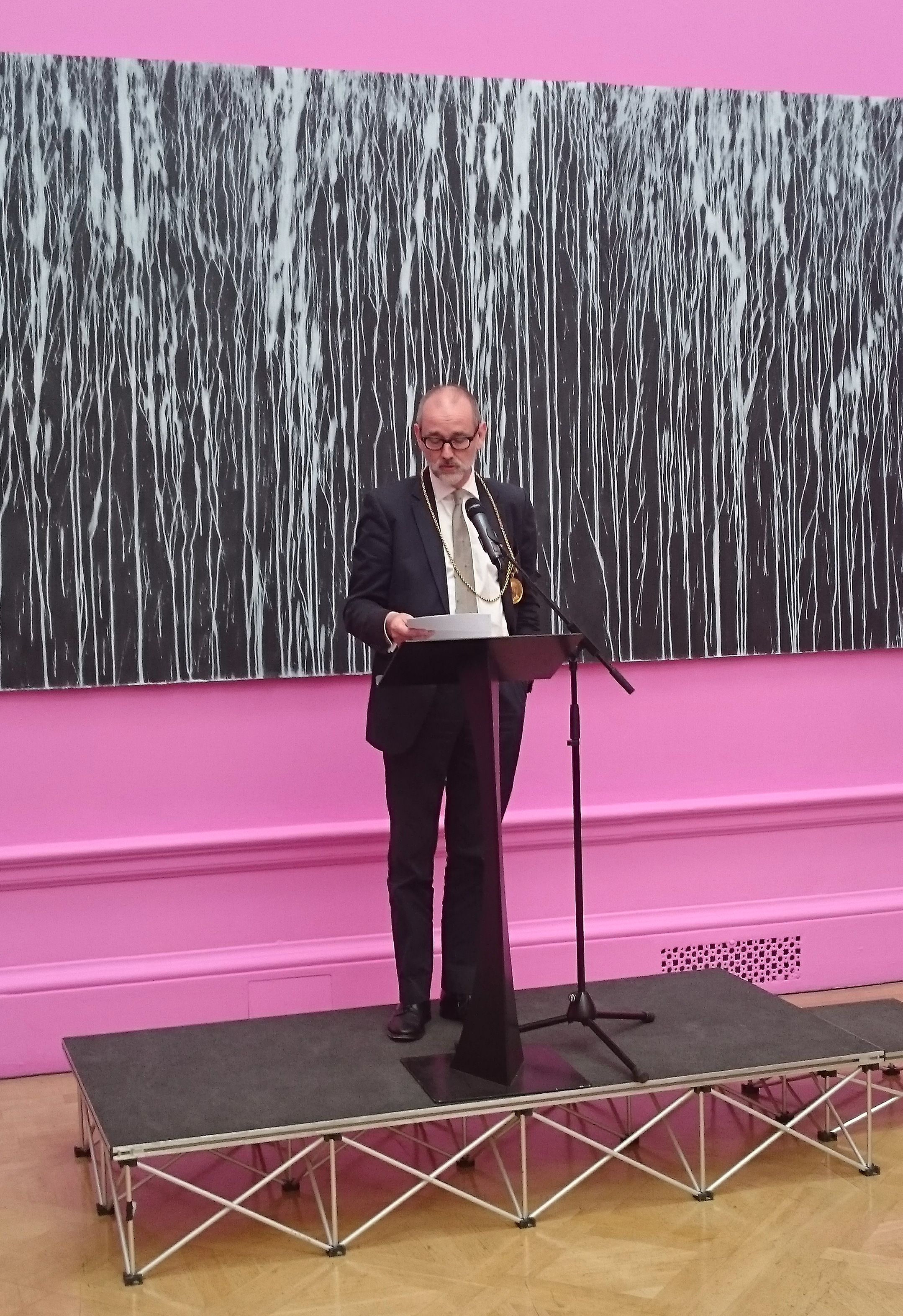 Opening speech by Christopher Le Brun, president of the Royal Academy of Arts, on "Varnishing Day", the artists' opening of the RA Summer Exhibition 2015. The work on paper behind him is by Richard Long.